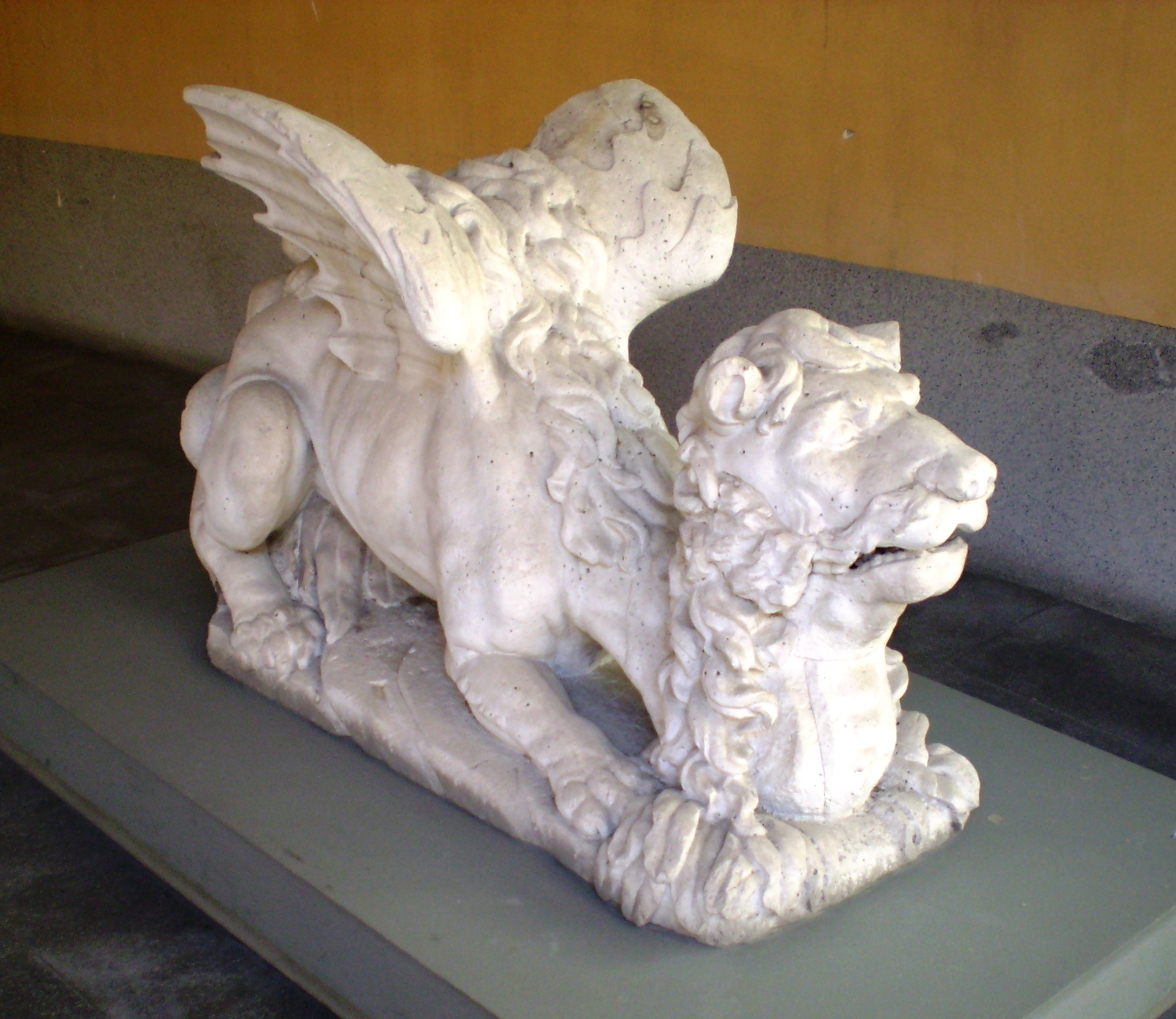 Old statue of the Fountain of Cibeles. Museo de los Orígenes, Madrid, Spain